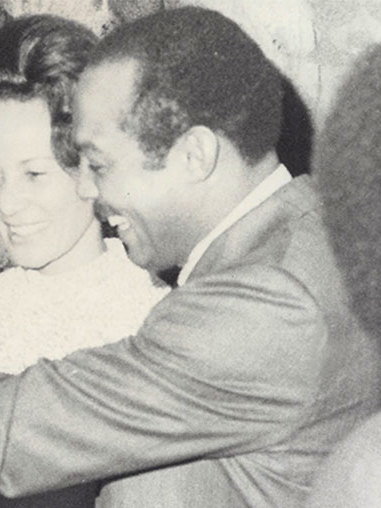 Bob Madison shakes hands with Cleveland elected mayor Carl Stokes.